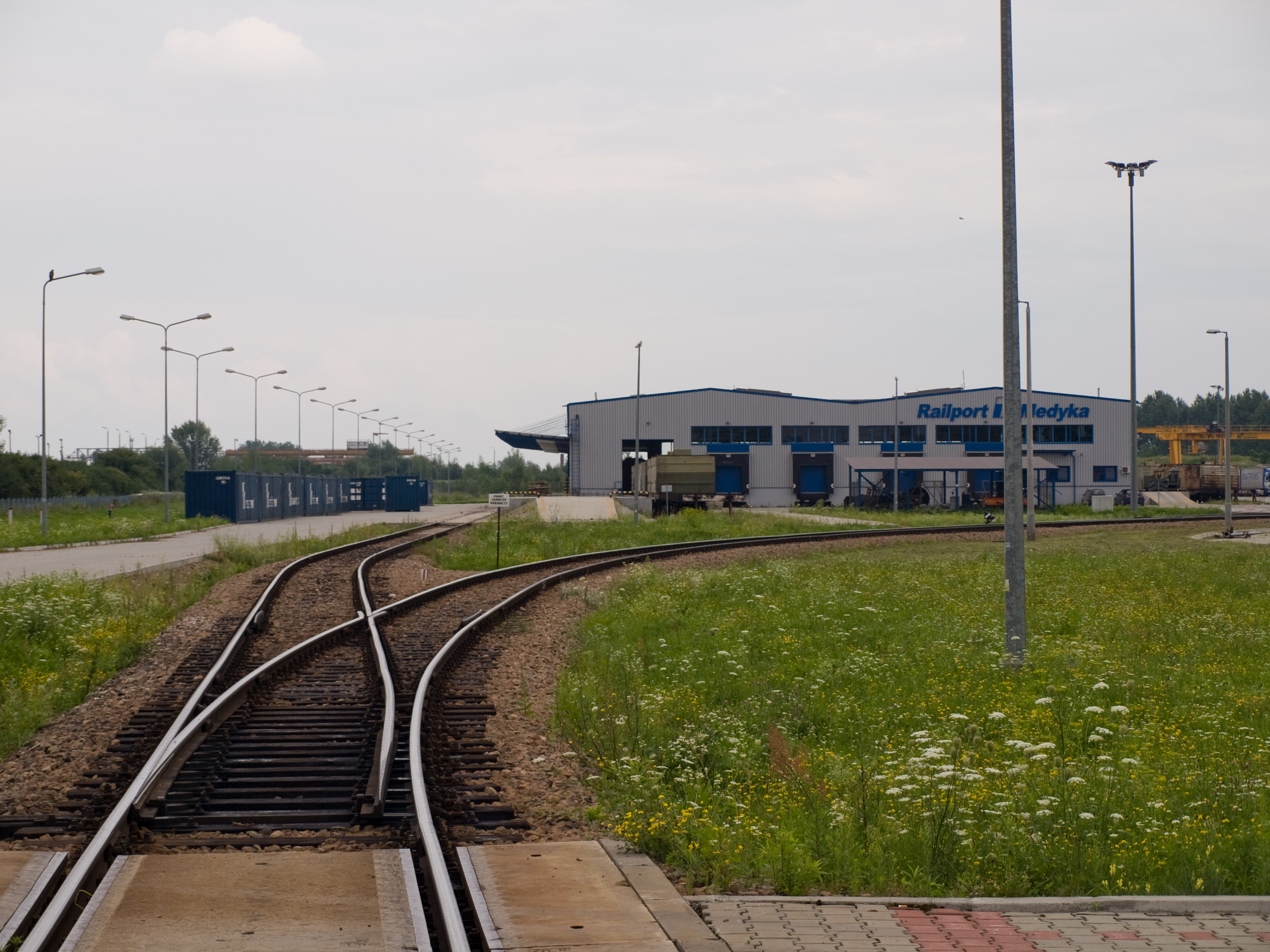 Railway terminal, Medyka, Subcarpathian Voivodeship